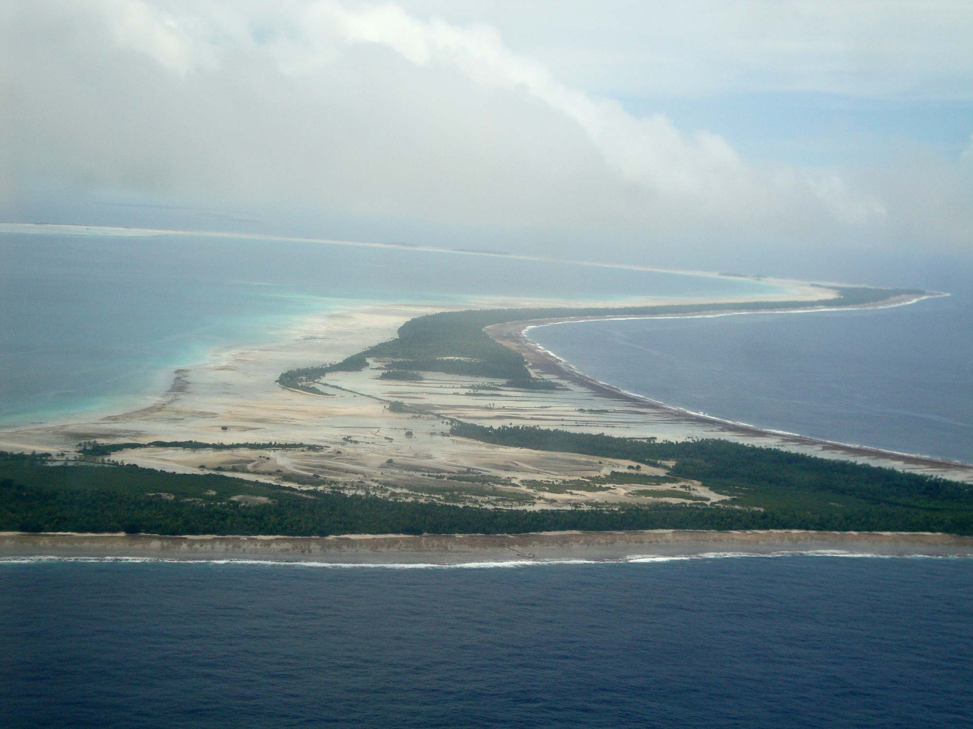 Causeway between Tanimaiaki and Keuea, Butaritari, Kiribati